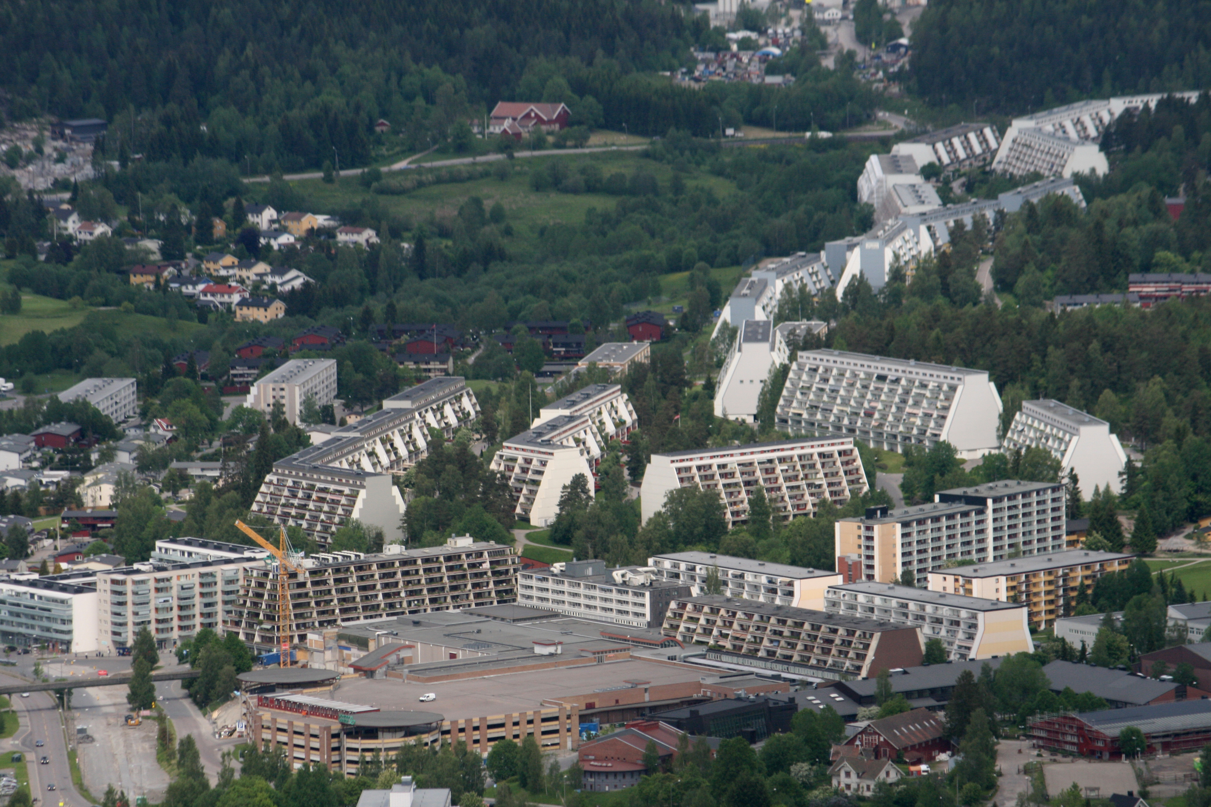 Aerial photograph from June 14th, 2015.